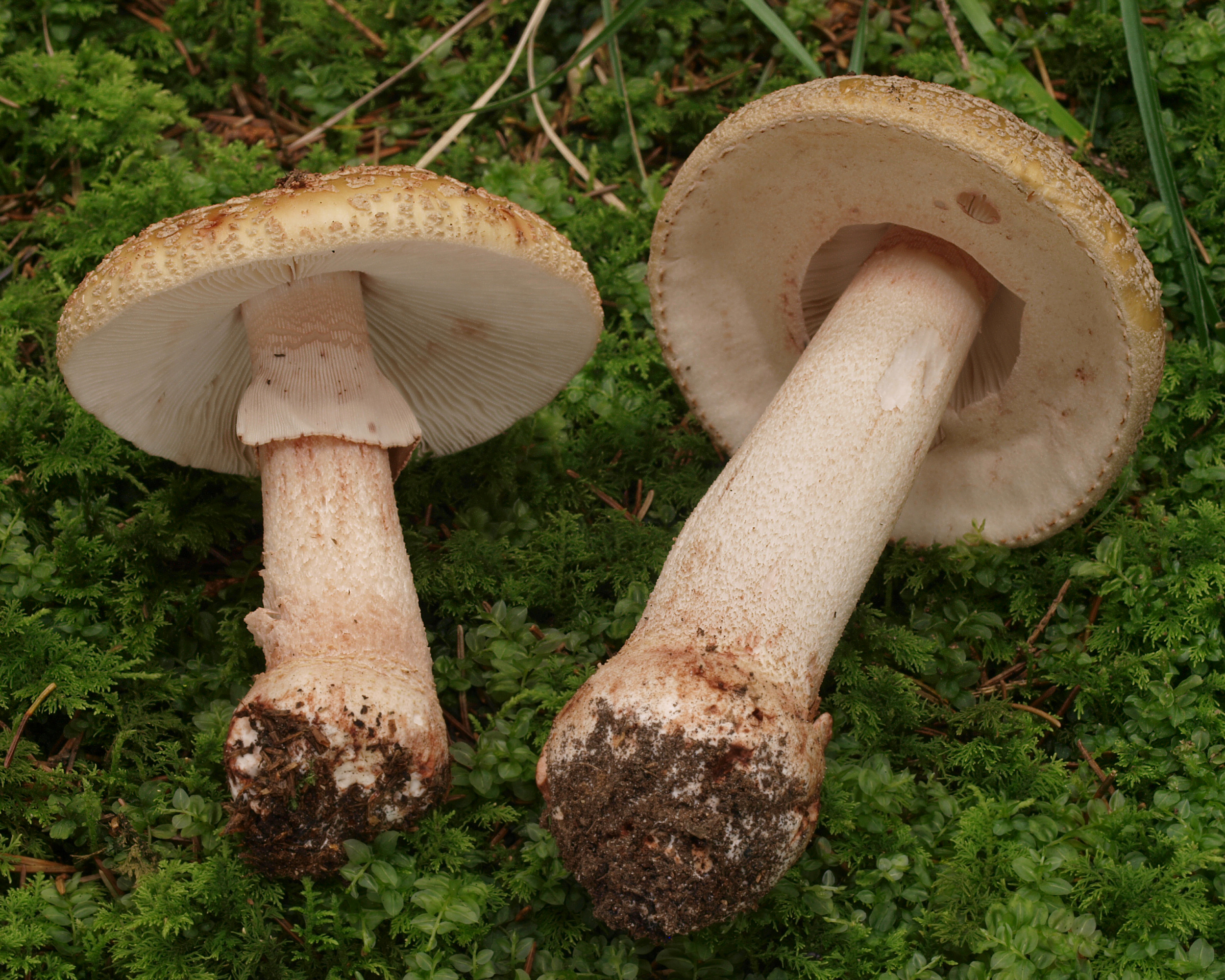 Blusher (Amanita rubescens)